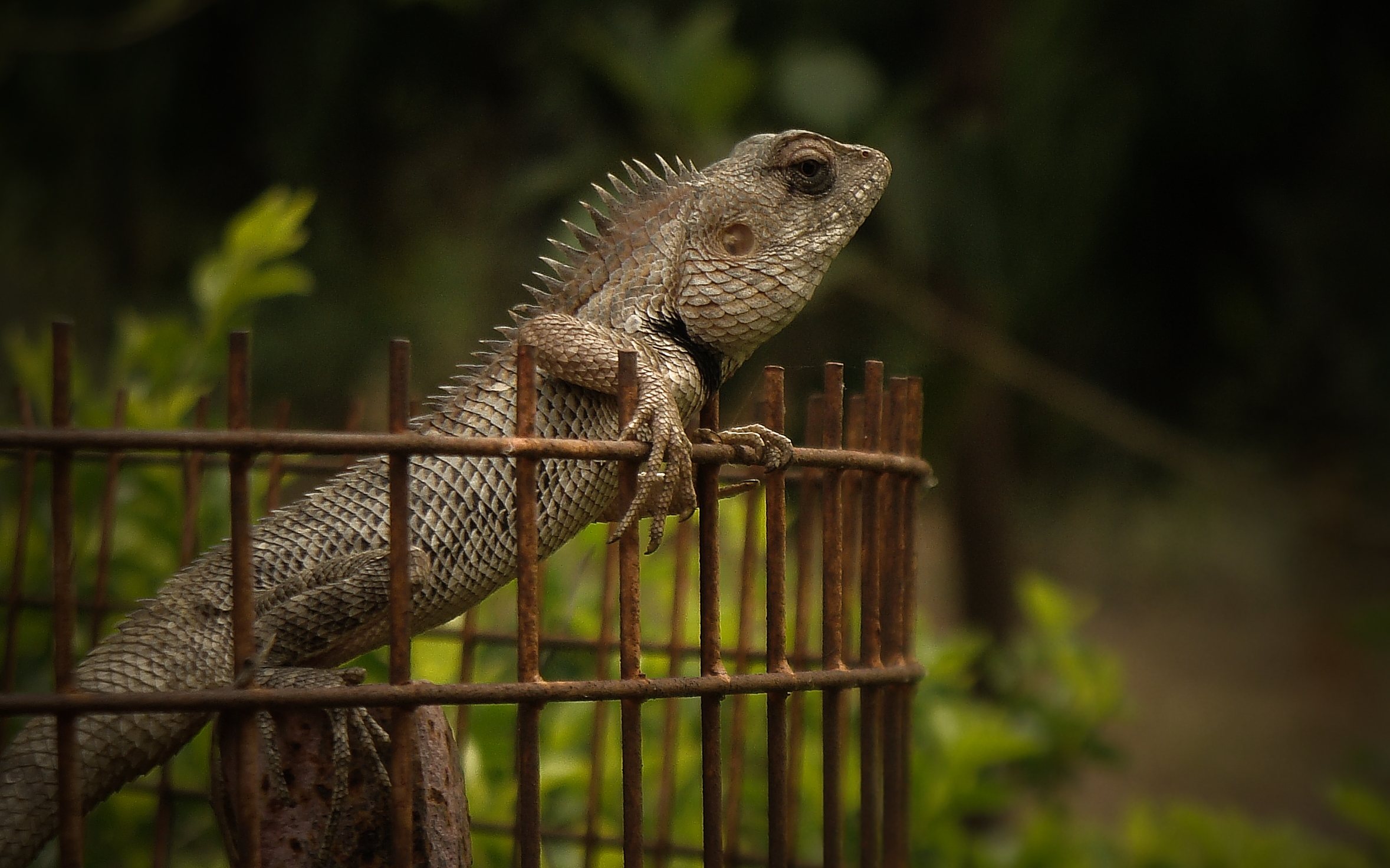 A garden lizard in S. Gujarat.